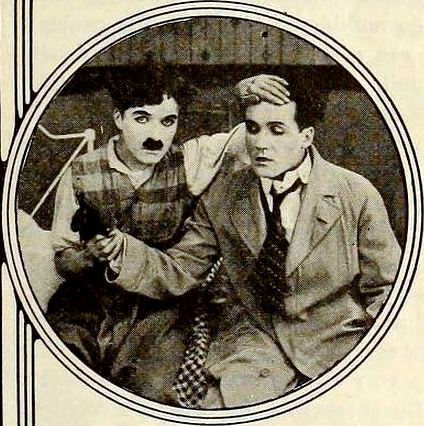 Still (cropped for publication) from the American film Sunnyside (1919) with Charlie Chaplin and Tom Terriss, on page 8 of the August 1919 Film Fun.